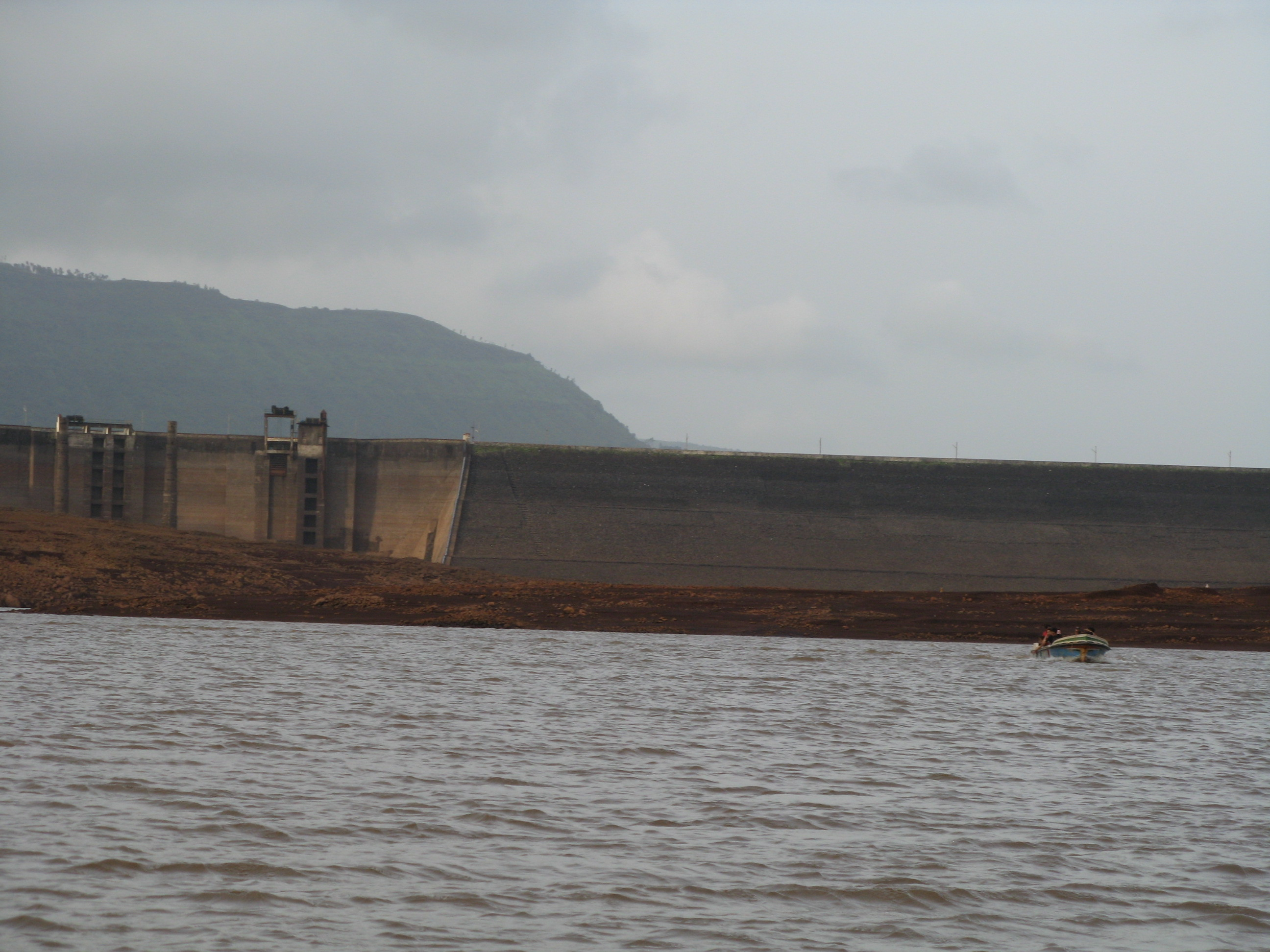 Panshet Dam is one of the important source of water for Pune city.